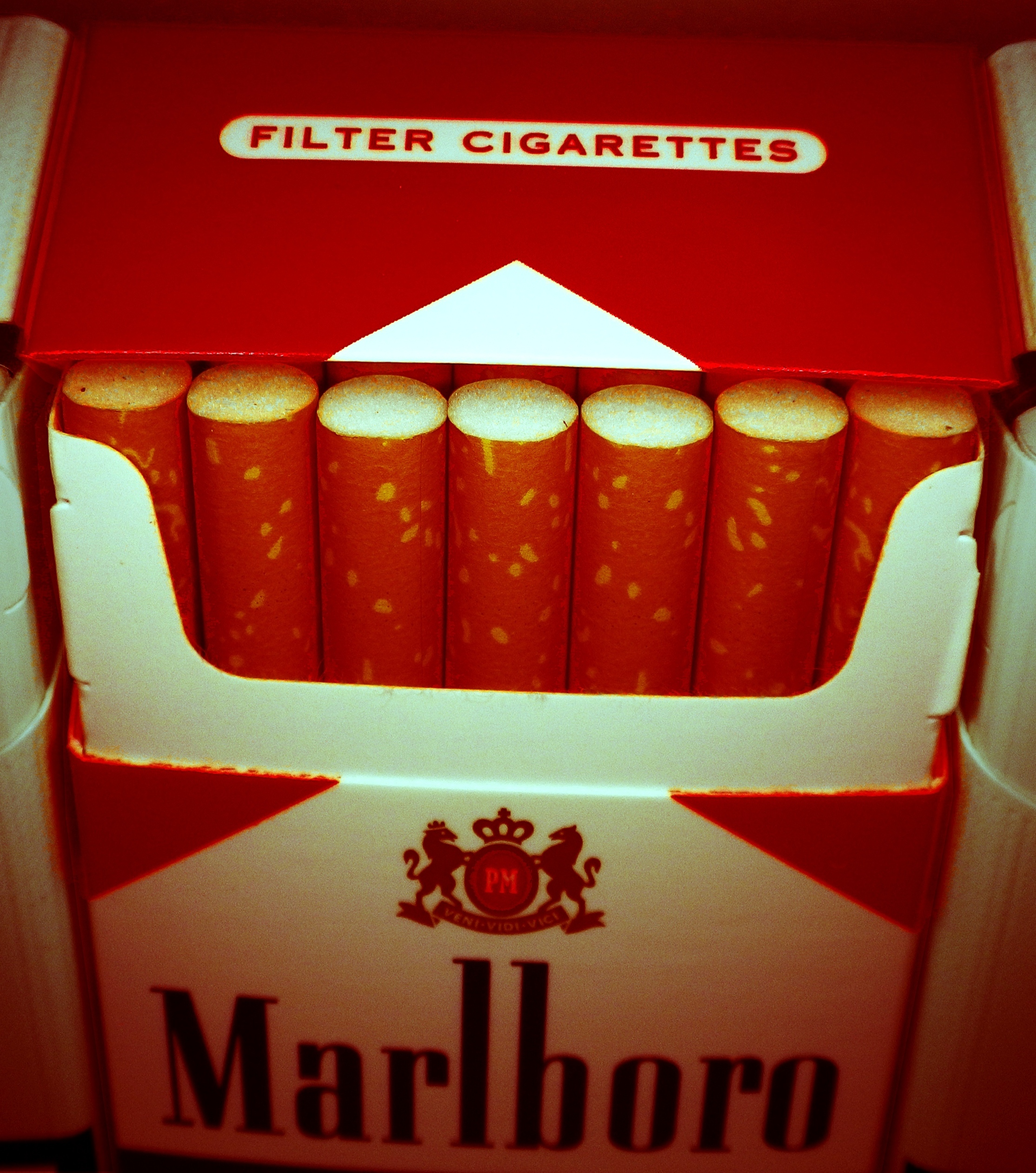 Marlboro cigarettes pack